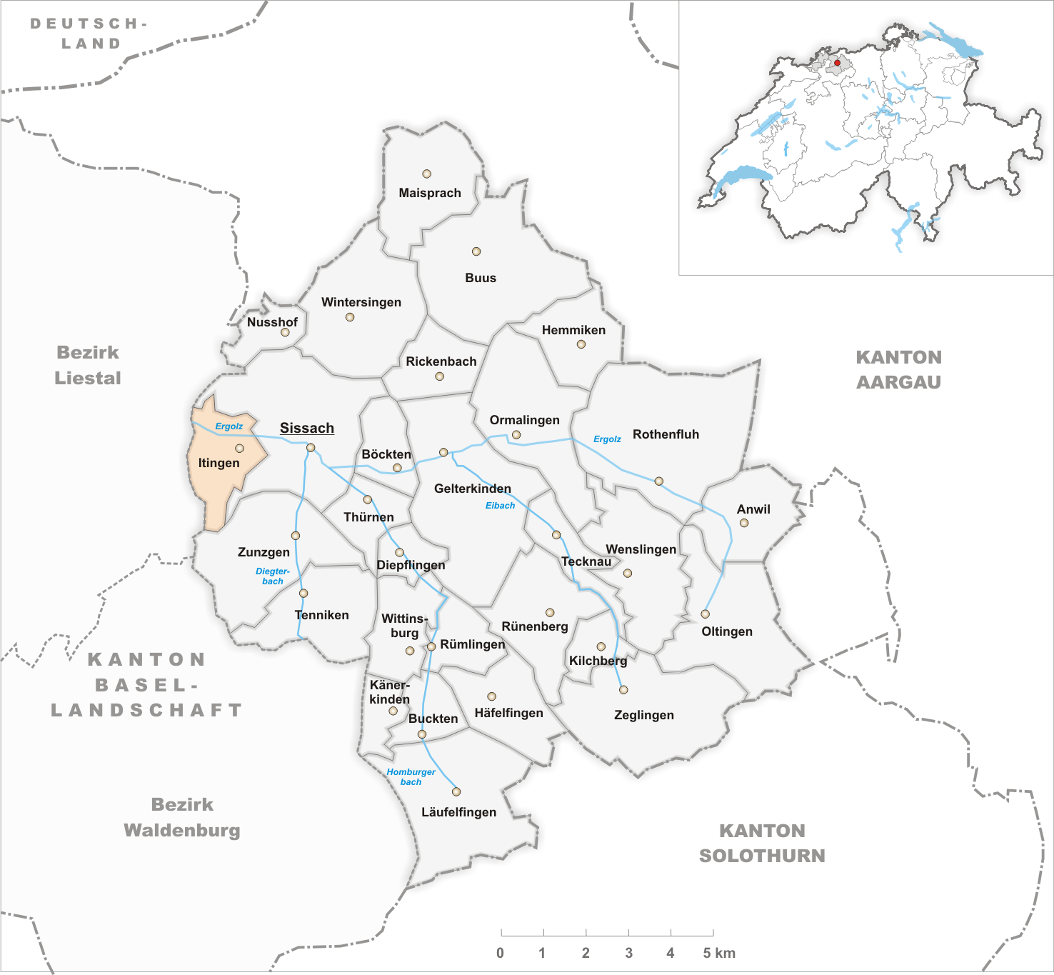 Municipality Itingen